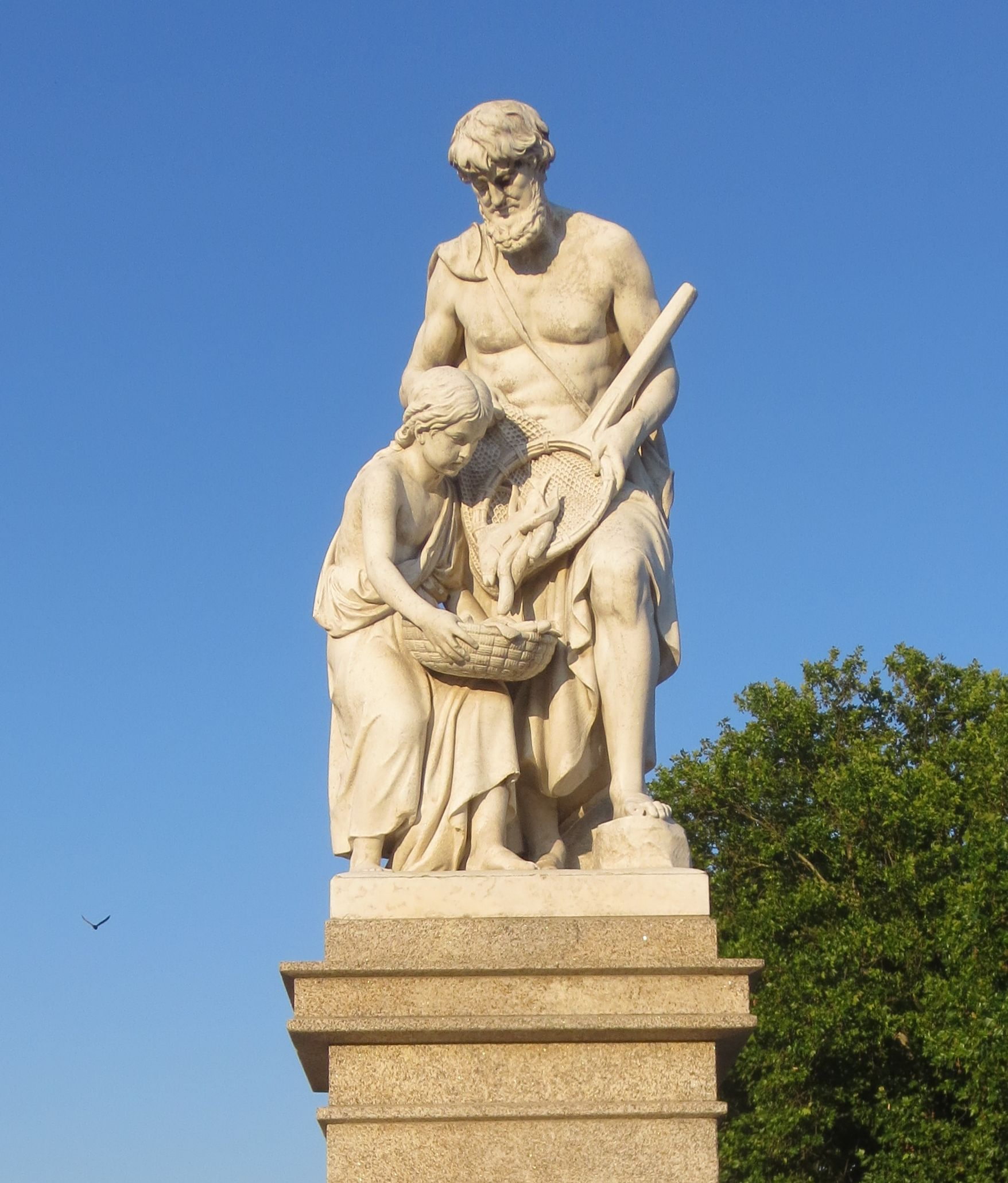 The allegorical sculpture "Fishing" on Hallesche-Tor-Brücke in Berlin-Kreuzberg. The sculpture was created in 1880 by Julius Moser.